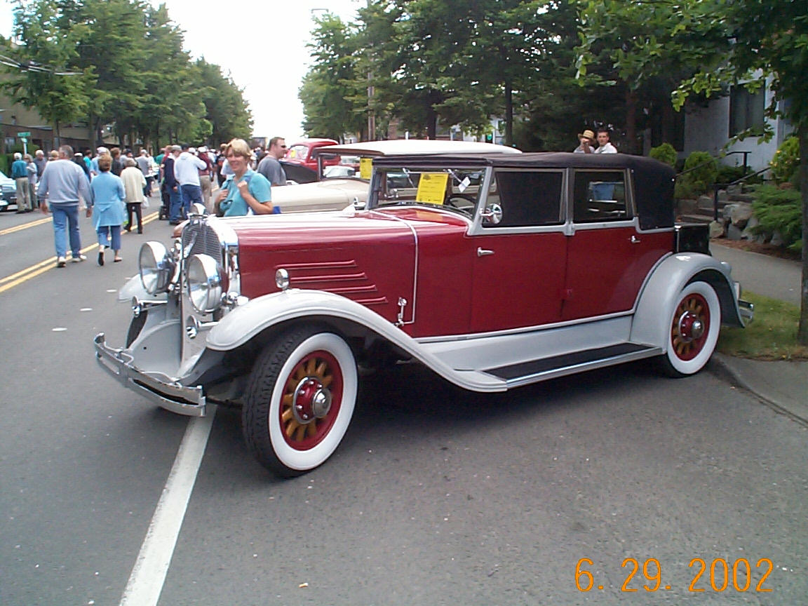 1930 Franklin 1770 Convertible Sedan, taken at the Greenwood Car Show in Seattle, Washington.